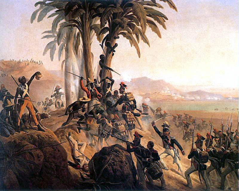 Battle of San Domingo, also known as the Battle for Palm Tree Hill